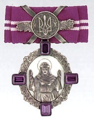 Order of Princess Olga 3rd grade